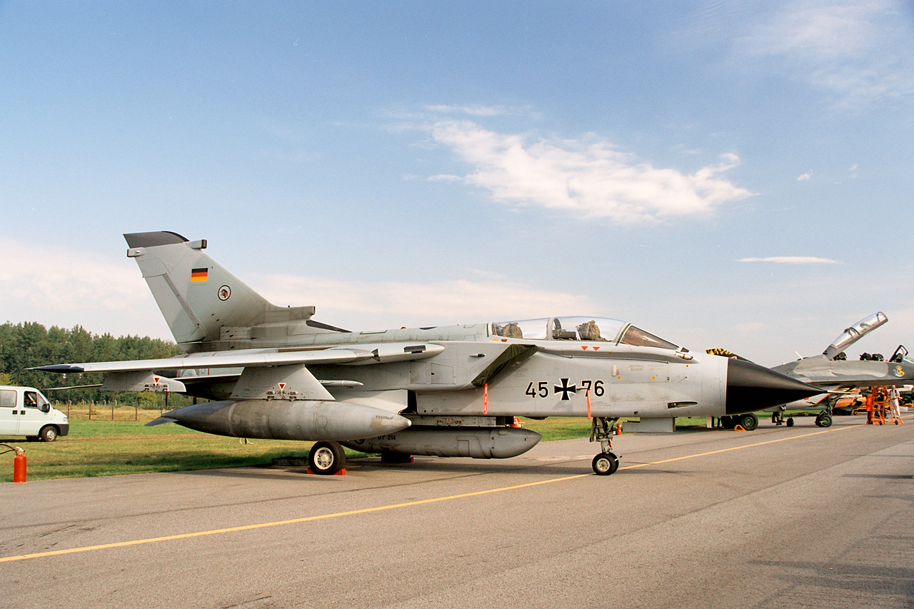 Panavia Tornado IDS of Luftwaffe on static display at Radom Air Show 2005.